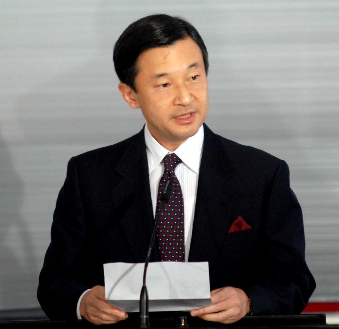 Naruhito, Crown Prince of Japan, in Brazil